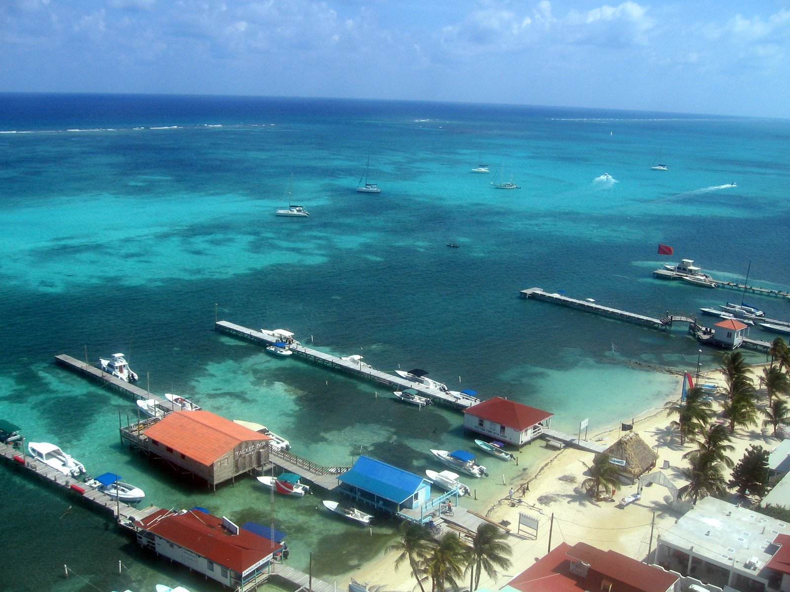 Bird's eye view of San Pedro town, Ambergris Caye, Belize